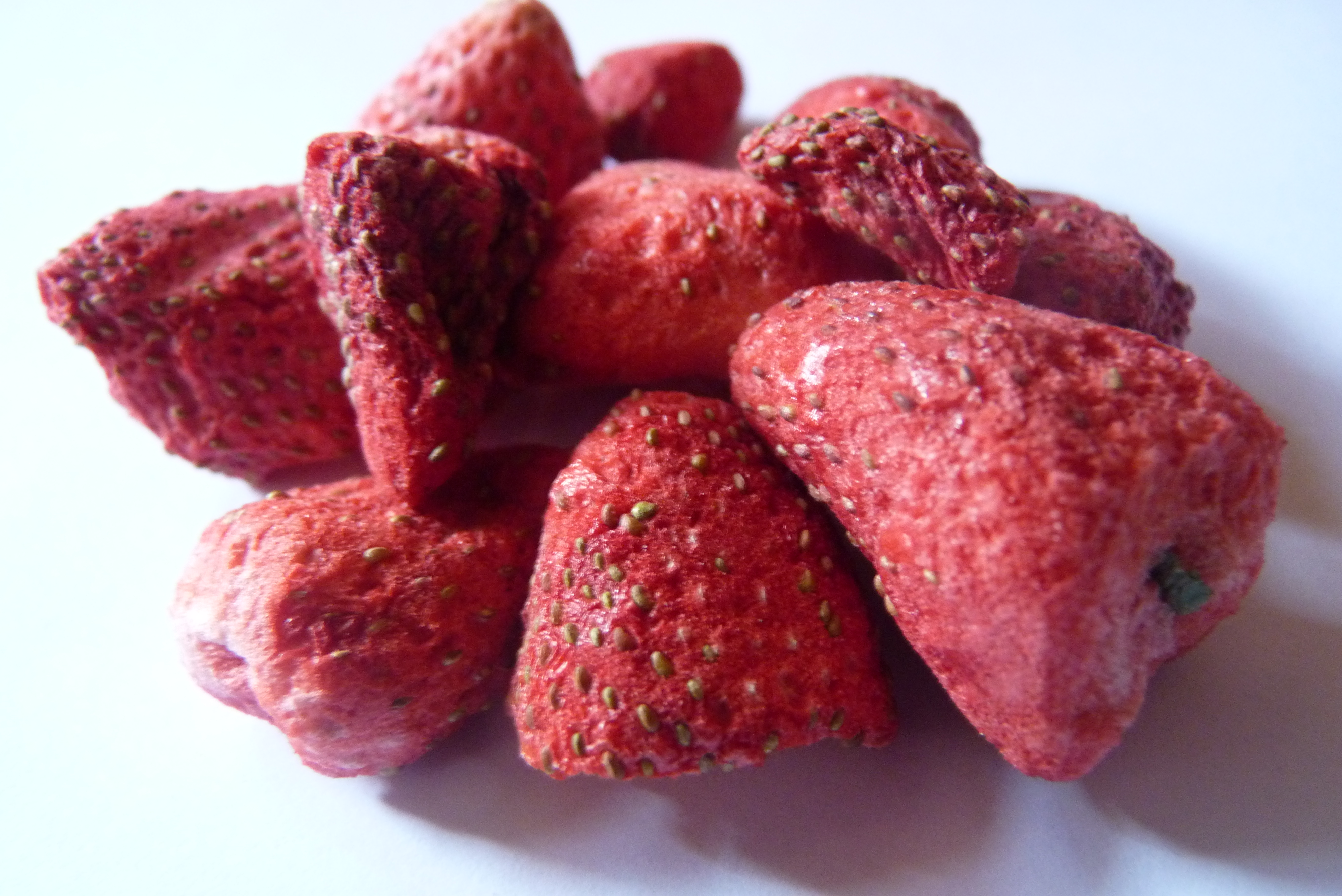 Freeze-Dried Strawberries that have been aboard space missions.